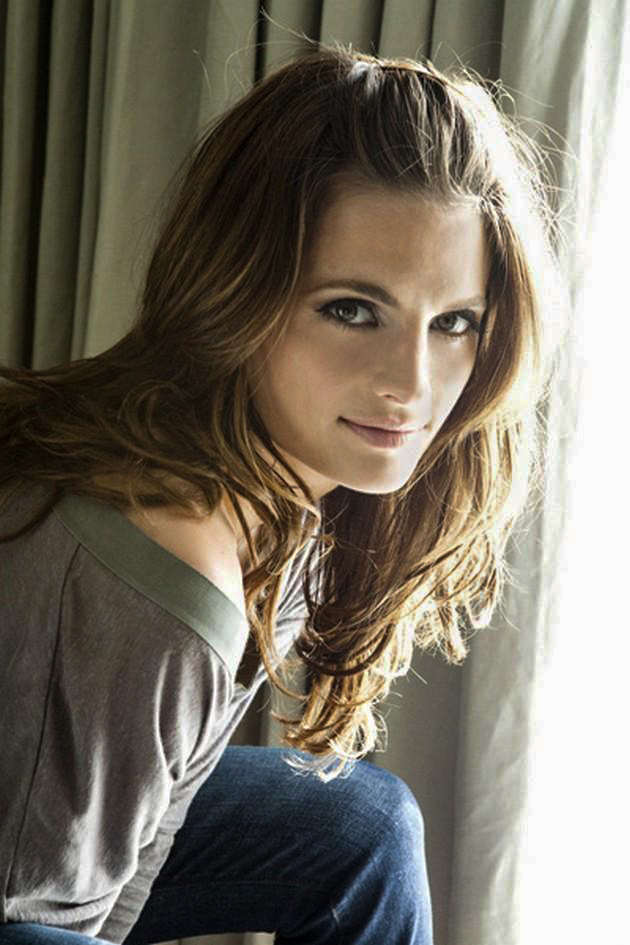 Stana Katic head shot, taken by Tyler Parker, for web use